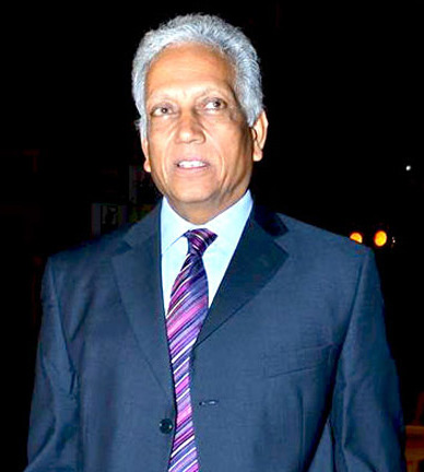 Mohinder Amarnath at Castrol Cricket Awards